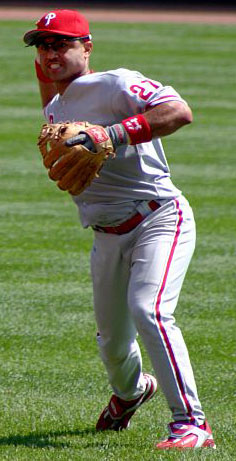 Description Placido Polanco in a Phillies uniform (see original for further description) Date3 December 2009, 19:57 (UTC)Sourceen-Wiki (see below)Authororiginally User:Rdikeman, cropped by KV5 (Talk • Phils)Permission (Reusing this file) CC-BY-SA 3.0 Other versions File:Baseball second baseman 2004.jpg 19:57, 3 December 2009 . . Killervogel5 . . 236×461 (34 KB) Placido Polanco in a Phillies uniform (see original for further description)